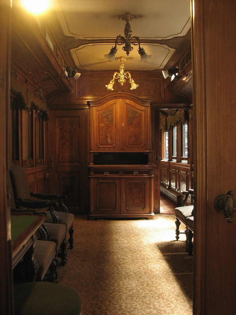 interior of a dining carriage (Hz 005 kkStB) of Emperor Franz Joseph I . Produced in 1891 by F. Ringhoffer Waggon Works in Smichov, Prague. Out of service from 1959. At the moment exhibited in Prague's Technical Museum author: Mohylek